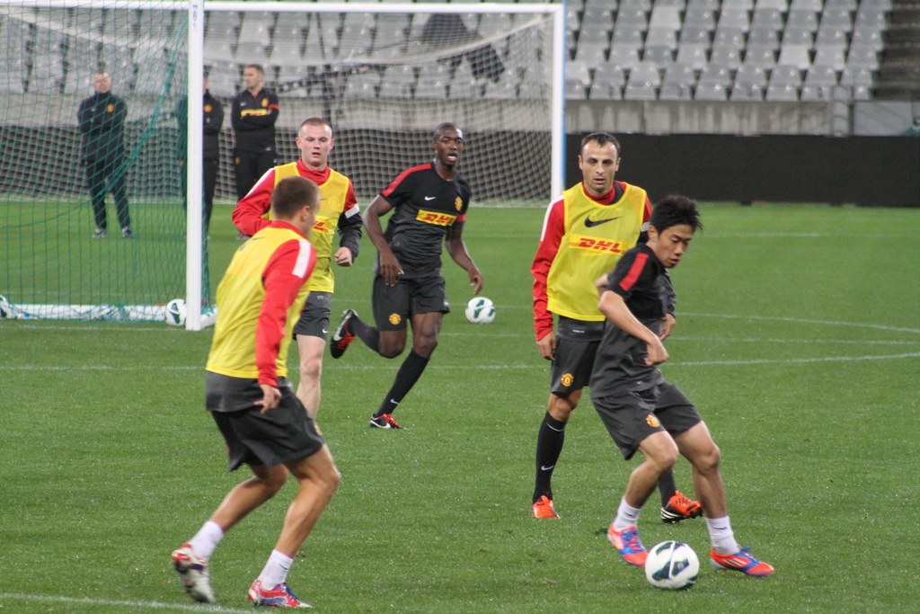 Shinji Kagawa in Training for Manchester United